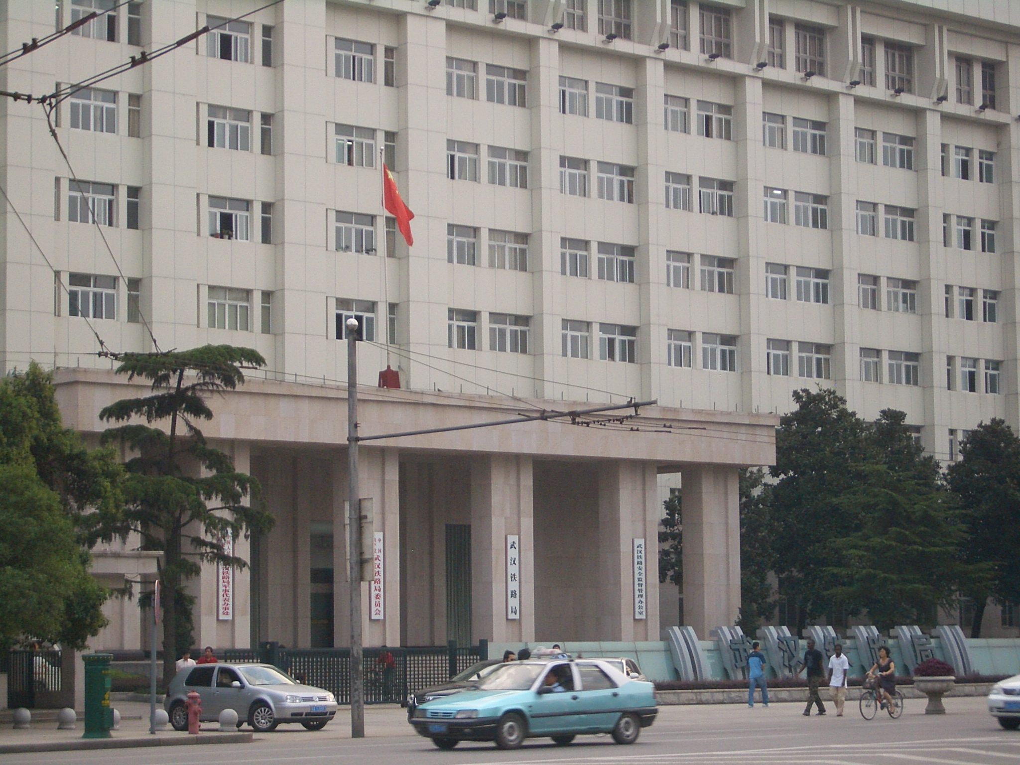 The Wuhan Railway Bureau headquarters, and associated agencies (such as the organization's Party committee), in their building in Wuhan's Hongshan Square